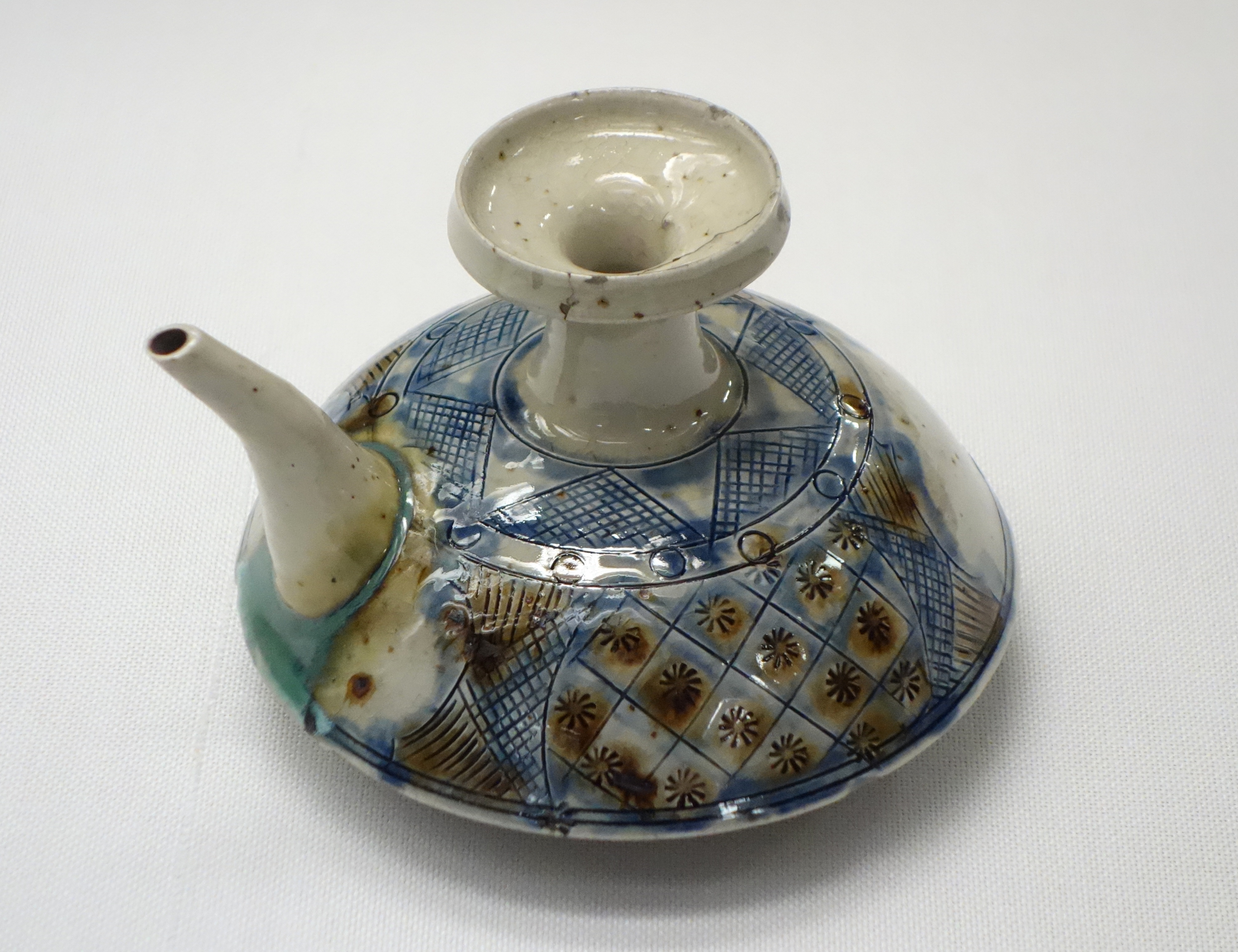 Exhibit in the Tokyo National Museum, Tokyo, Japan. This artwork is old enough so that it is in the public domain.